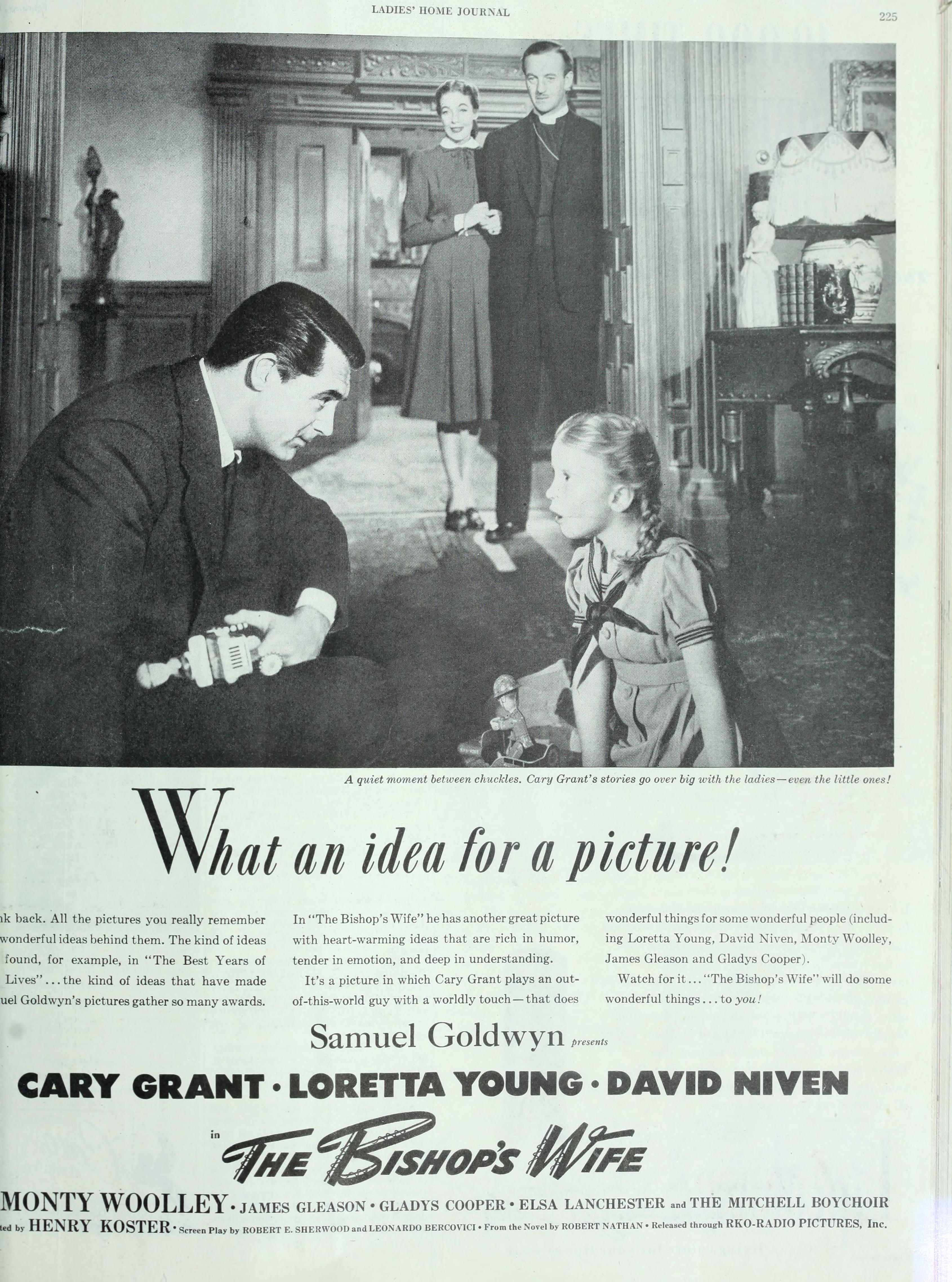 Cary Grant in The Bishop's Wife, 1947 Title: The Ladies' home journal Year: 1889 (1880s) Authors: Wyeth, N. C. (Newell Convers), 1882-1945 Subjects: Women's periodicals Janice Bluestein Longone Culinary Archive Publisher: Philadelphia : (s.n.) Text Appearing Before Image: S-4814 6234 LADIES HOME JOURNAL Text Appearing After Image: w„ A quiet moment between chuckles. Cary Grants stories go over big with the ladies—even the little ones! hat an idea for a picture! ik back. All the pictures you really remember wonderful ideas behind them. The kind of ideas found, for example, in The Best Years of Lives...the kind of ideas that have made uel Goldwyns pictures gather so many awards. In The Bishops Wife he has another great picturewith heart-warming ideas that are rich in humor,tender in emotion, and deep in understanding. Its a picture in which Cary Grant plays an out-of-this-world guy with a worldly touch —that does wonderful things for some wonderful people (includ-ing Loretta Young, David Niven, Monty Woolley,James Gleason and Gladys Cooper). Watch for it... The Bishops Wife will do somewonderful things... to you! Samuel Goldwyn presents GARY GRANT • LORETTA YOUNG • DAVID NIVEN